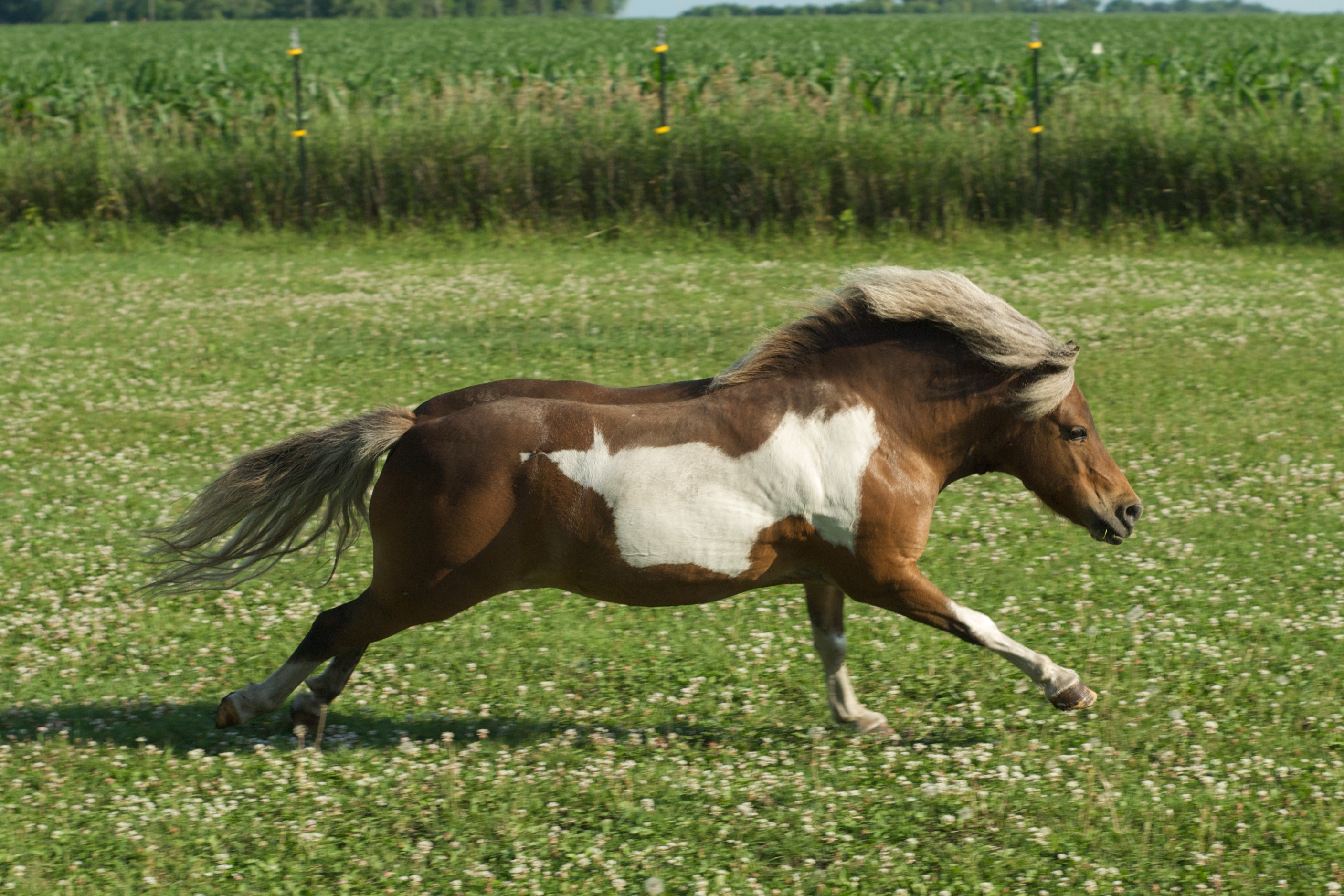 The horses have been confined to a dirt paddock for the past few weeks because Mariah has foundered. We put everyone in the paddock with her because we thought it would be less stressful on Mariah. Needless to say when we gave them all a chance to be in the big pasture, little Gingerbread wanted to run and play. Ginger is a miniature horse and stands just 38 inches tall at her withers. She was adopted from Minnesota Hooved Animal Rescue.